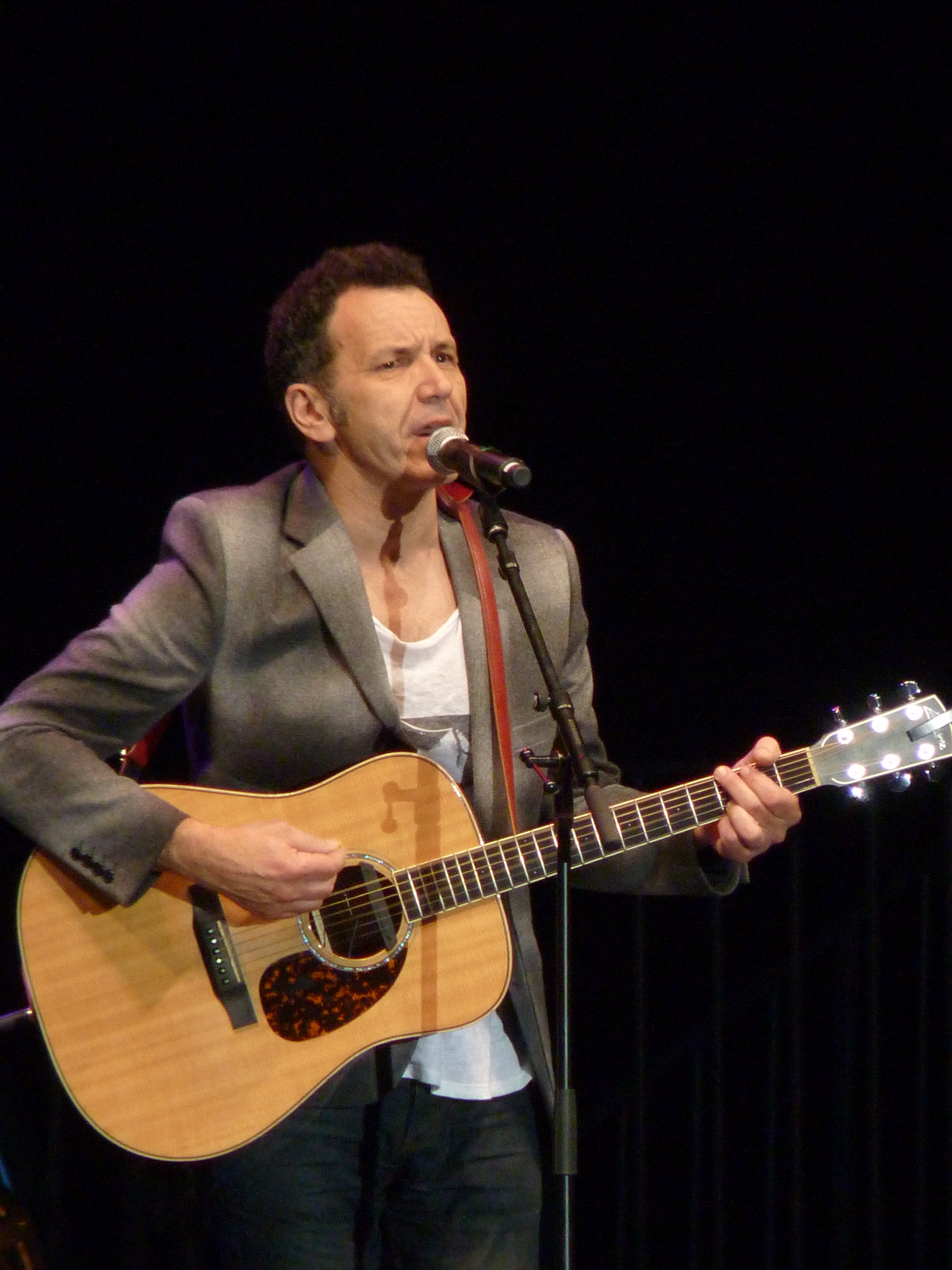 Jean-Pierre Morgand performing at La Nuit des Hits of Juan-les-Pins for Enfant Star & Match association.